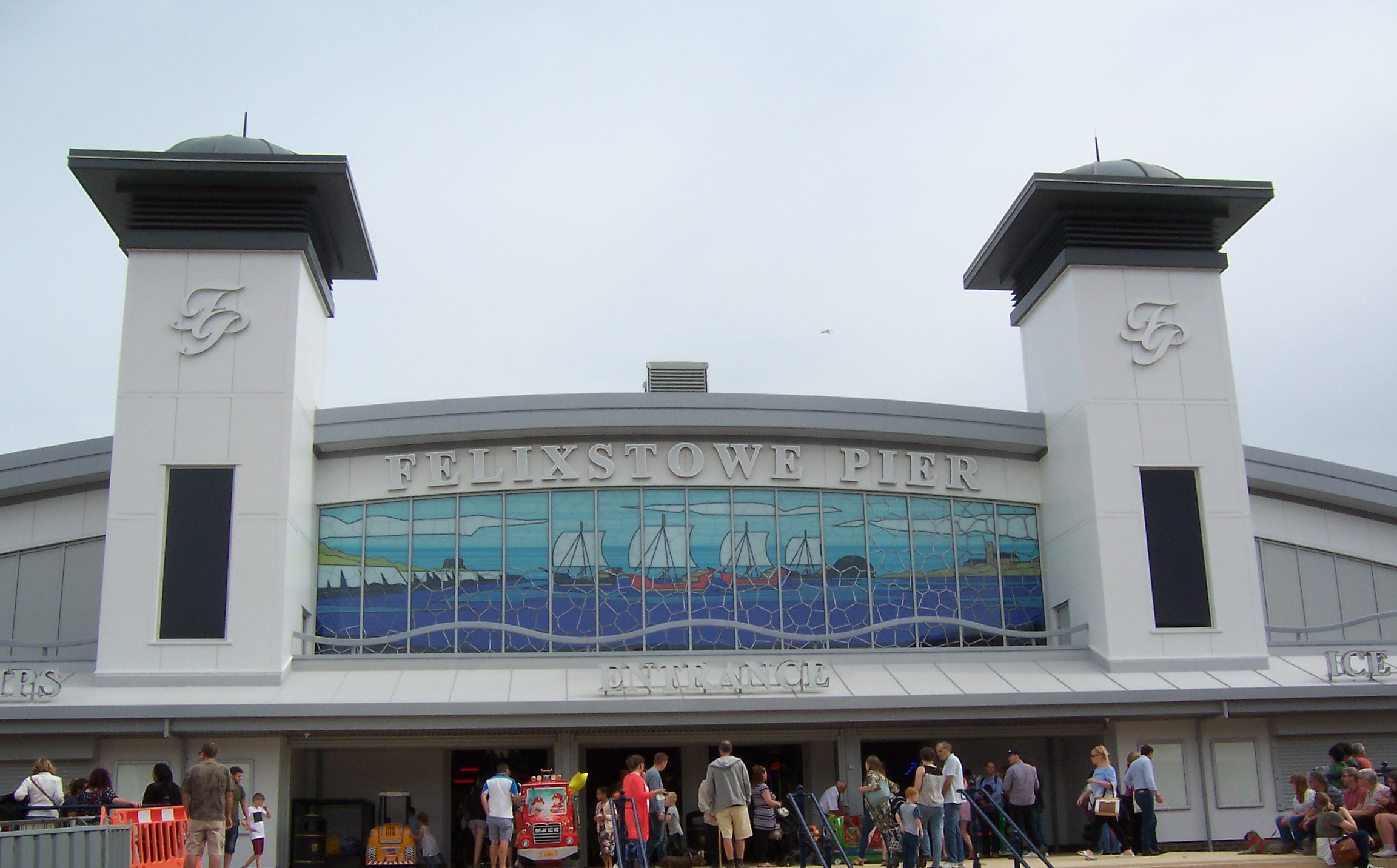 Front view of Felixstowe Pier